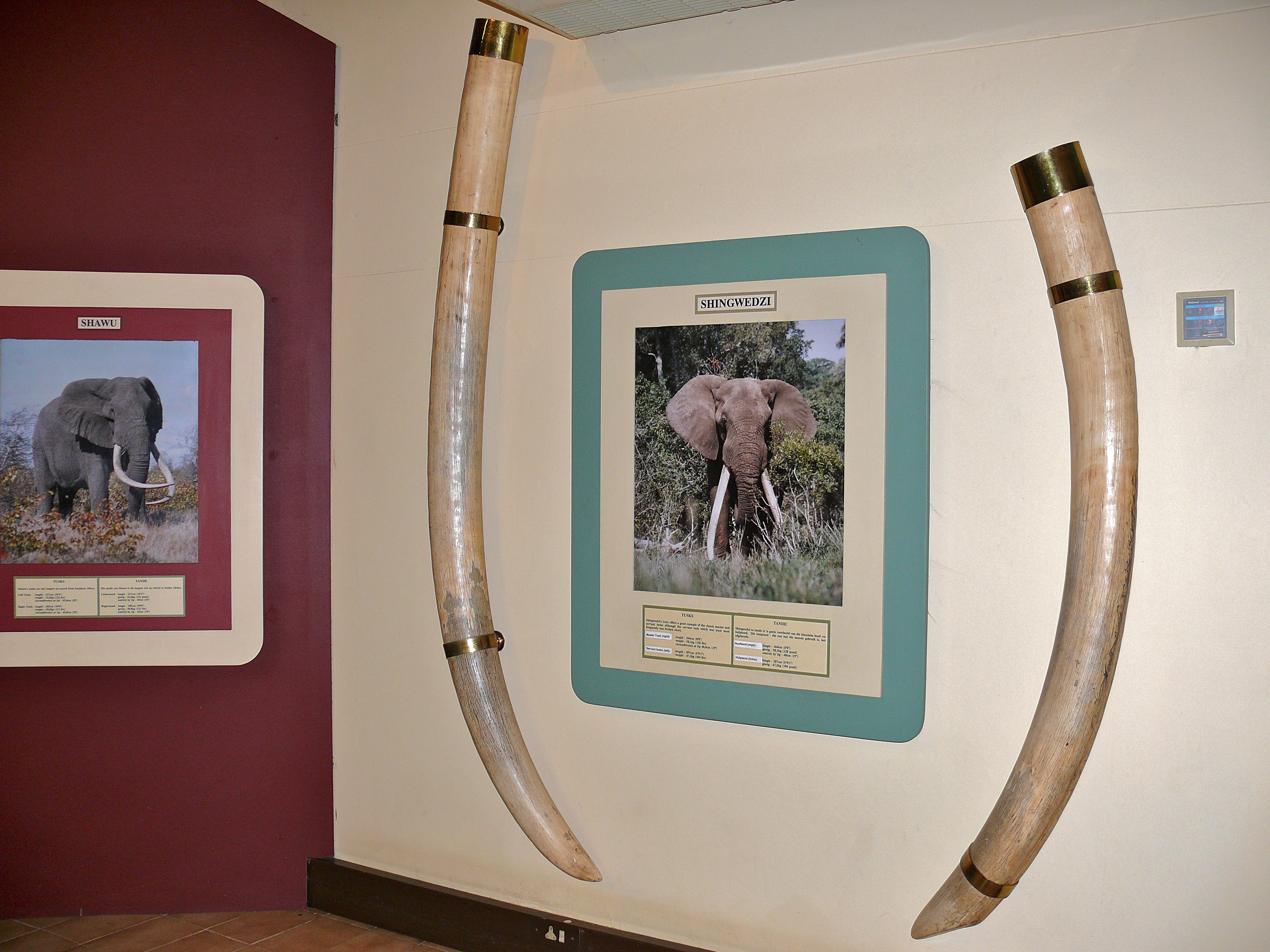 The tusks of "Shingwezi", an elephant bull that died in 1981 near Shingwedzi Camp, displayed in the museum at Letaba Camp, Kruger NP, SOUTH AFRICA. The tusks weighed in at 47 and 58 kg respectively.[1]